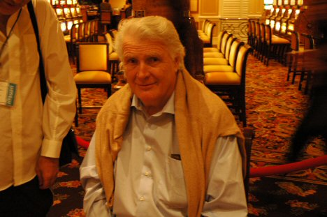 Noel Furlong at World Poker Tour Five Star Poker Classic 2005